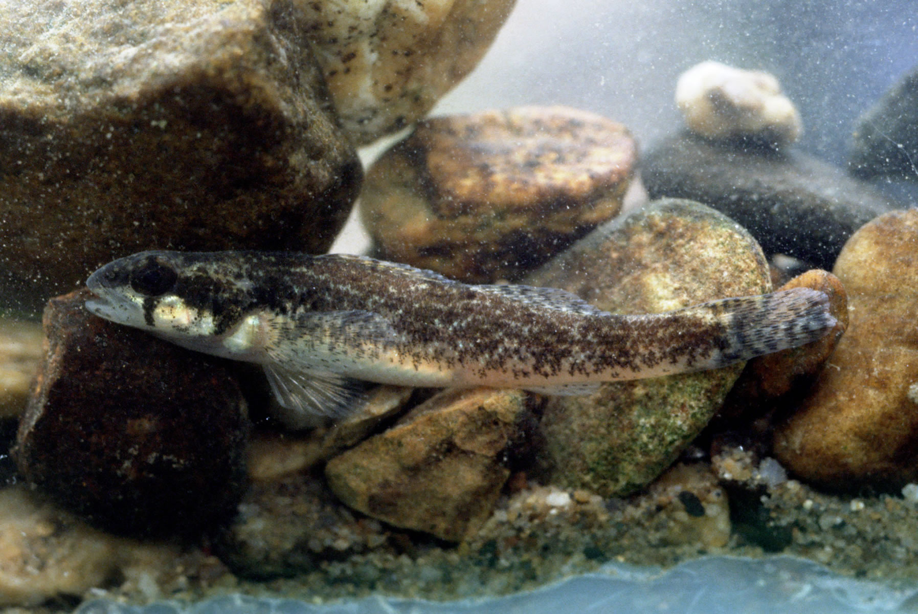 Etheostoma trisella USFWS